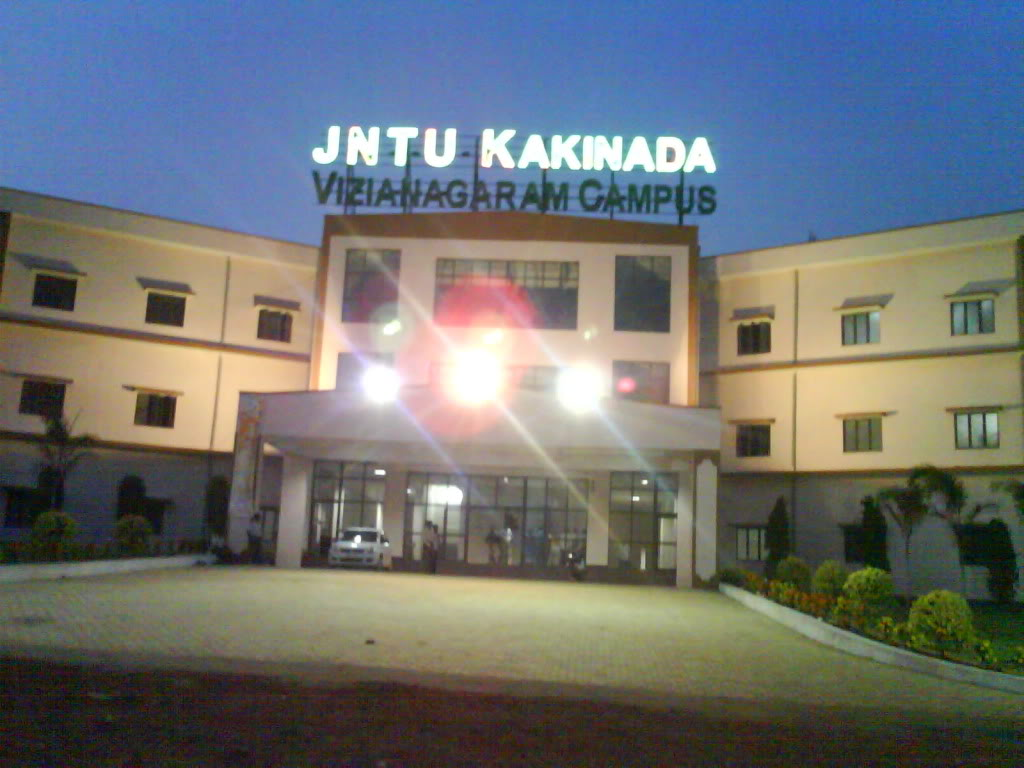 jntuv2